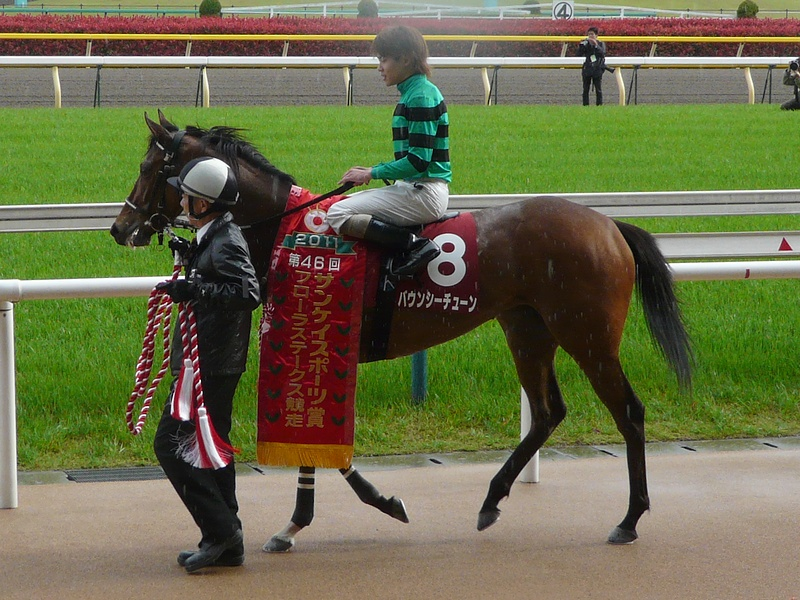 Bouncy-Tune20110423